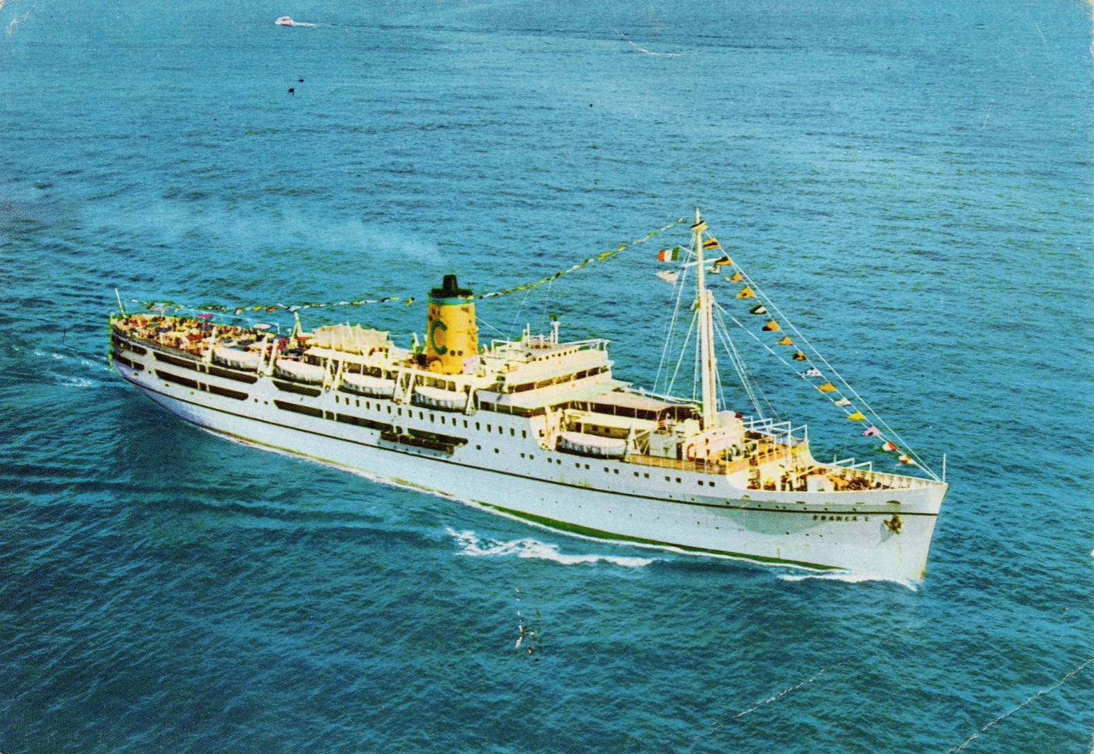 A postcard of the ship Franca C. at sea